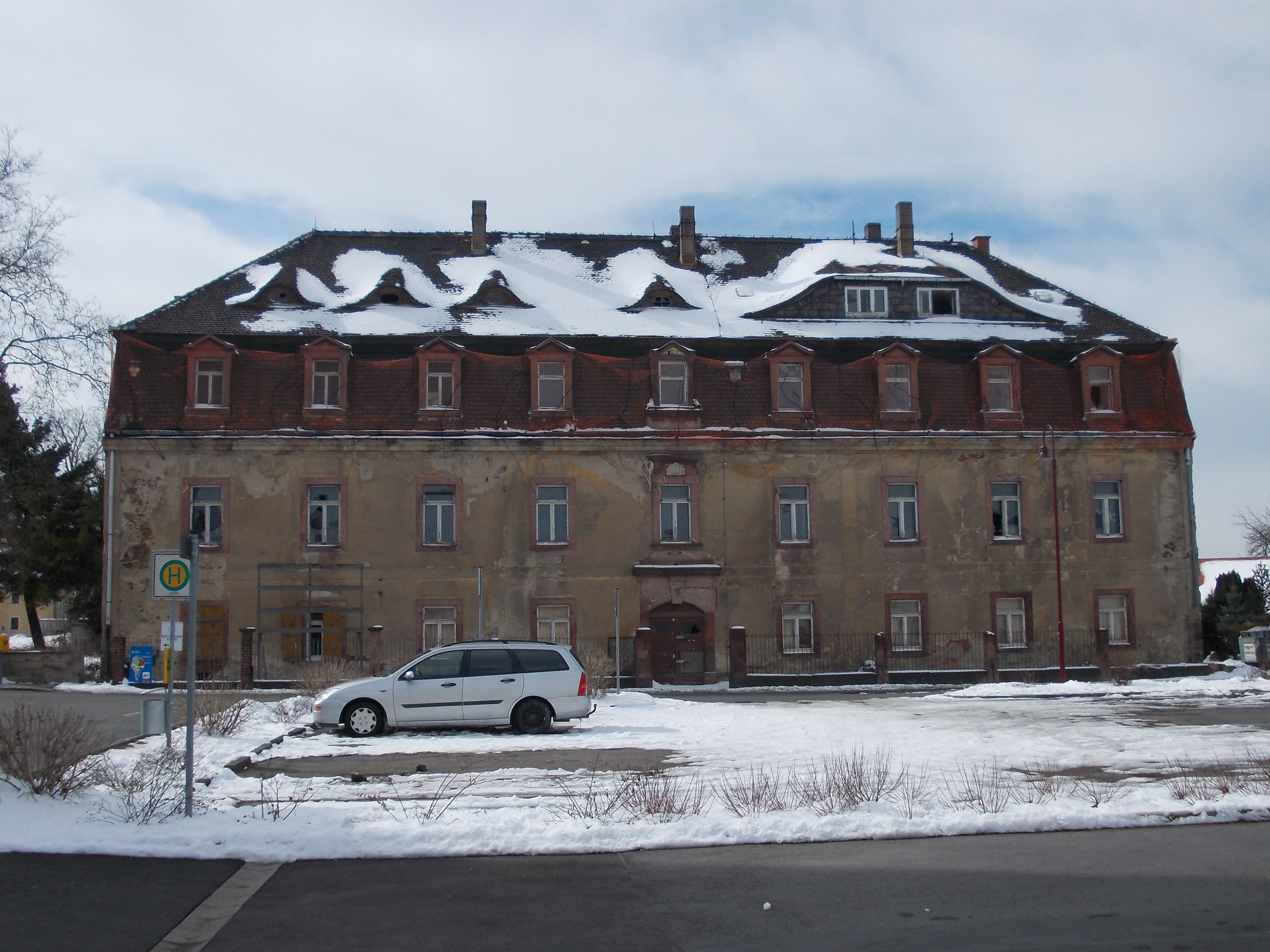 Hohnstädt manor house (Grimma, Leipzig district, Saxony)